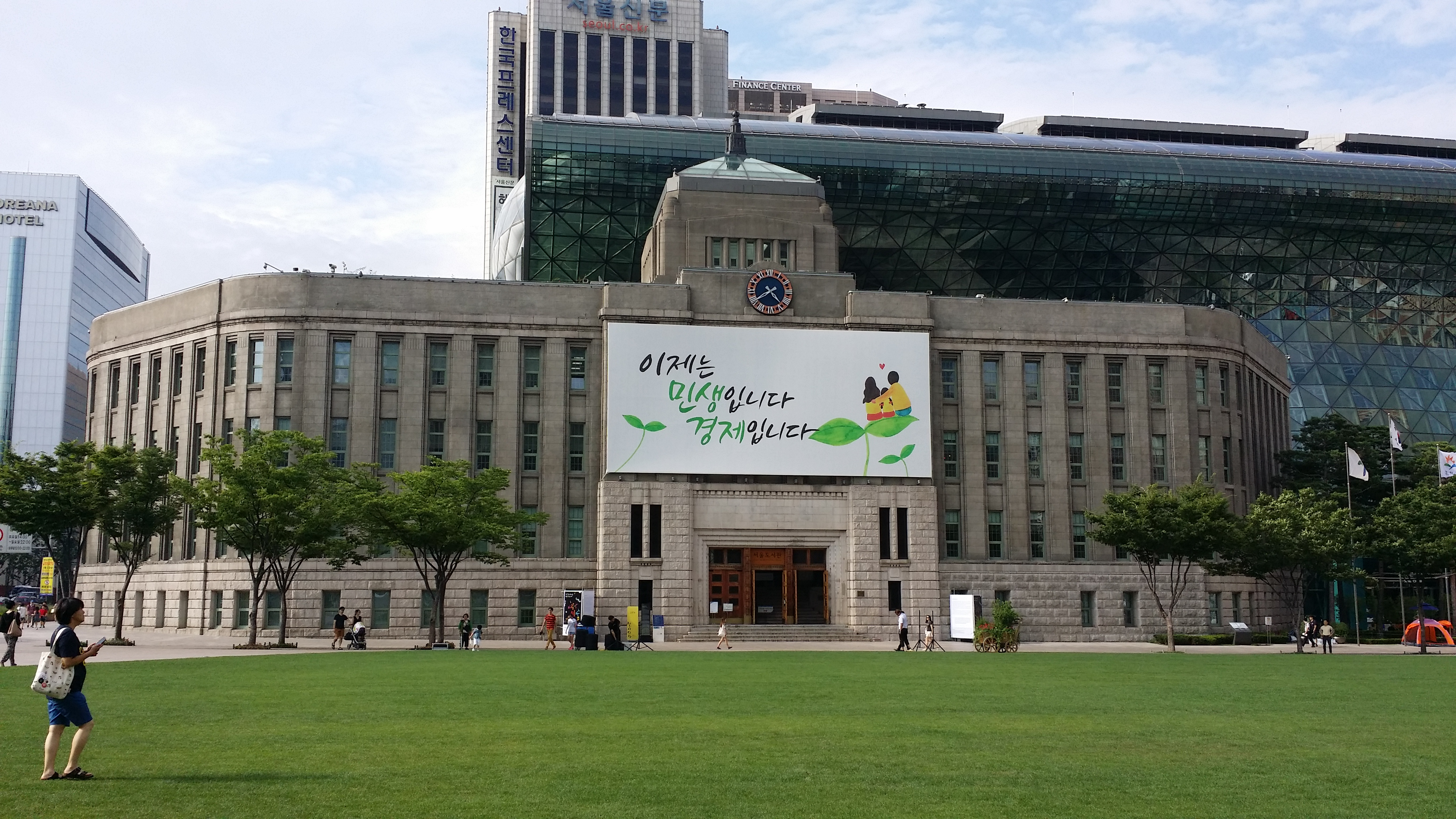 한국어 (조선): 구 서울시청 (the Old Seoul City Hall)